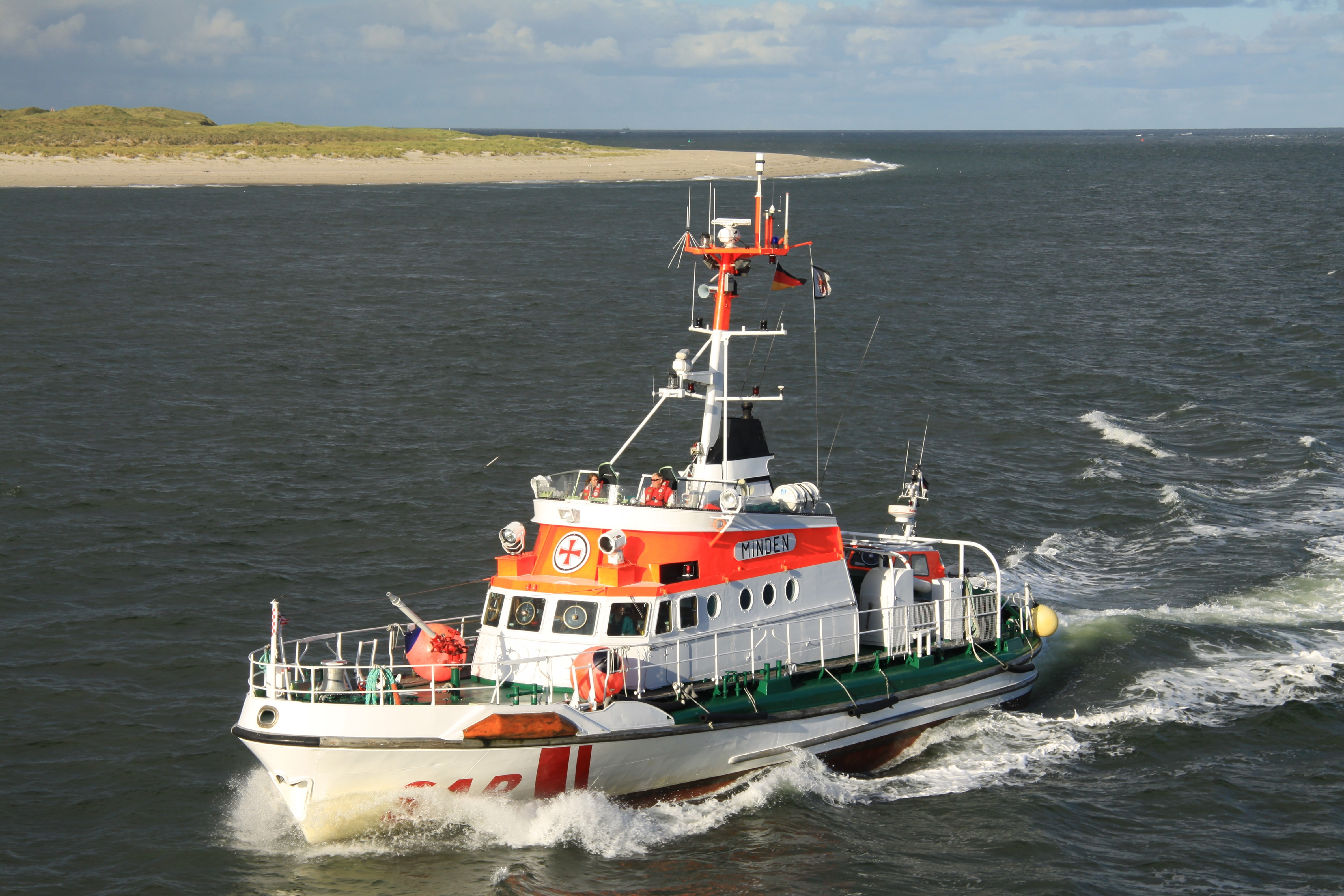 Coast Lifeboat "Minden" near the so called "Ellenbogen" of the island of Sylt